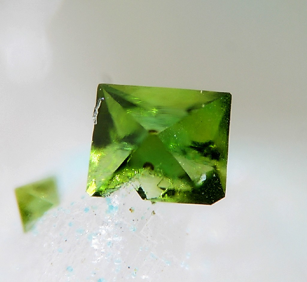 Libethenite Locality: Miguel Vacas Mine, Pardais, Vila Viçosa, Évora District, Portugal (Locality at ) Picture width 1.5 mm. Collection and photograph Christian Rewitzer